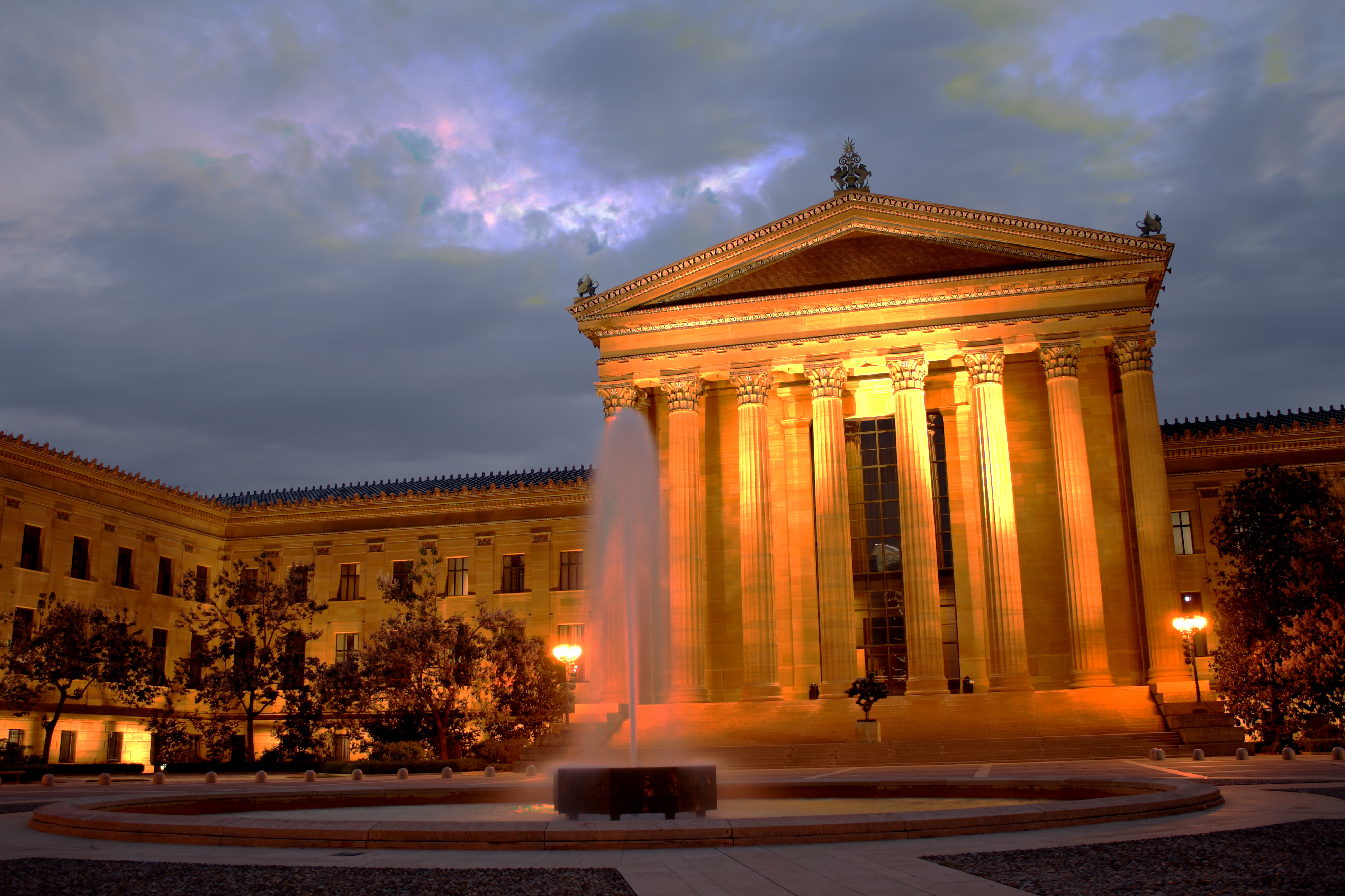 The front facade of the Philadelphia Museum of Art at night.